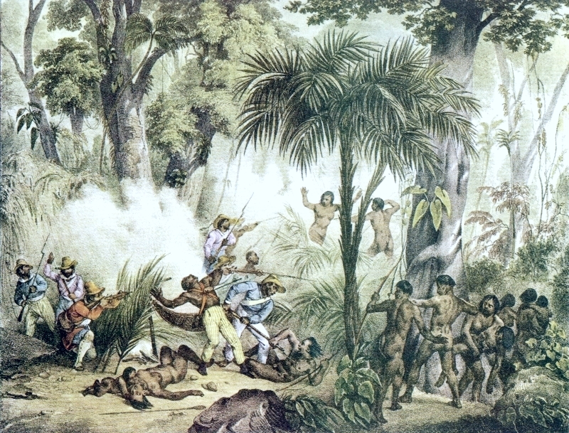 Indian guerrillas.